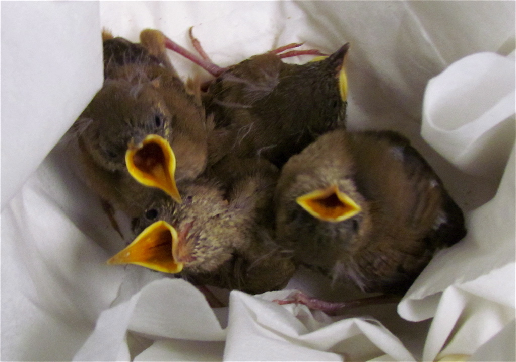 6/15/11 These little ones are close to being branchers now.